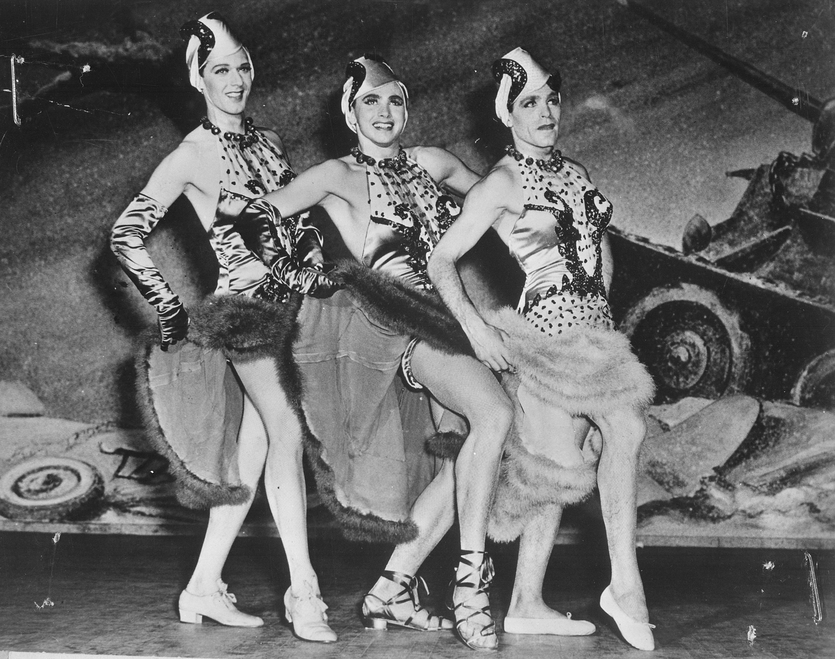 Title "This Is The Army," Irving Berlin's Broadway hit, with an all-soldier cast, is making $40,000 a week for Army Relief. Don't let them fool you, boys. They're chorus "gals," but tough as mule meat.